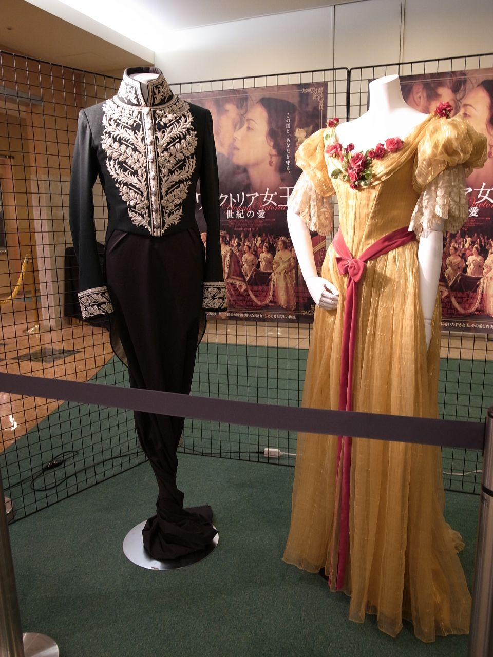 Costume worn in the film The Young Victoria. Costume designed by Sandy Powell. Displayed at Umeda Garden Cinema, Osaka, Japan.